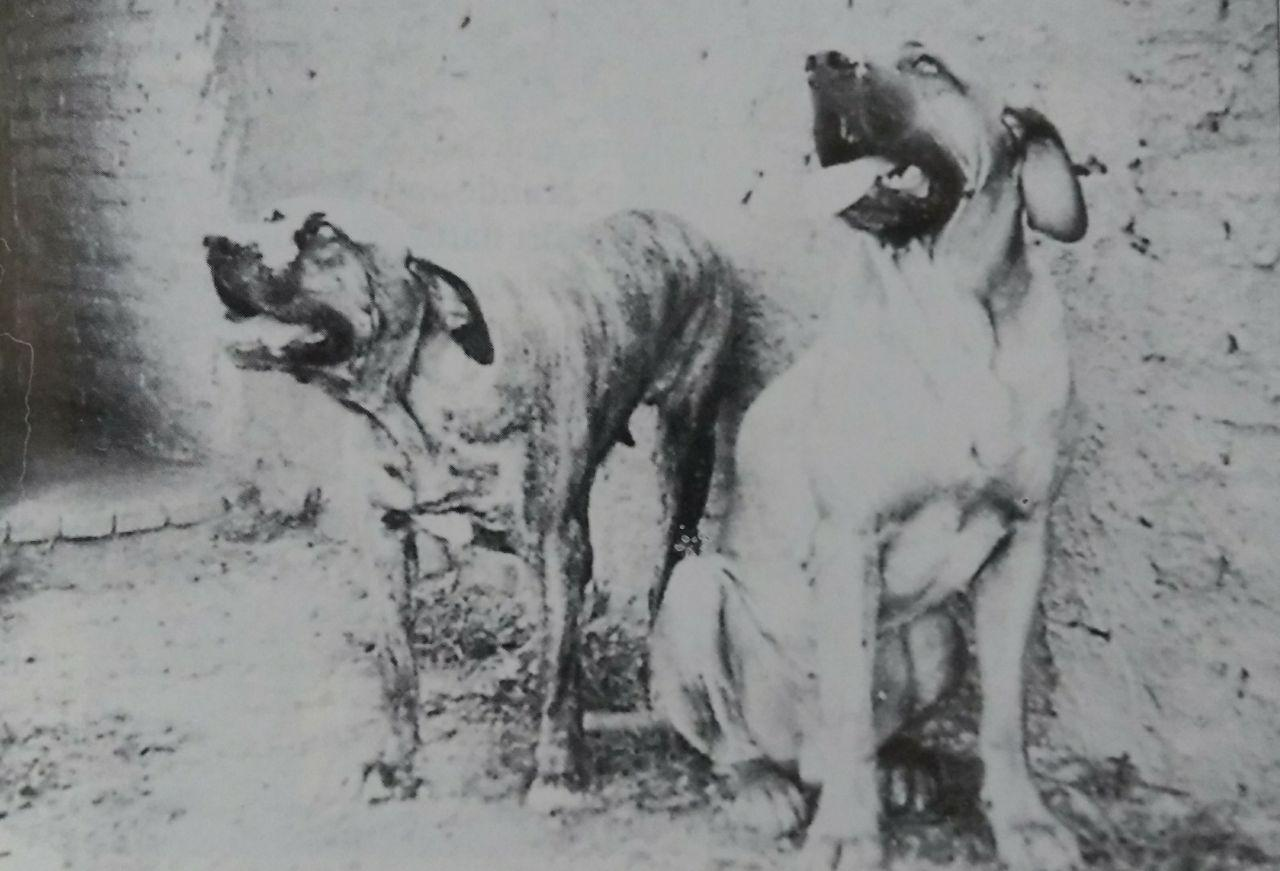 Ancient Original Fila Brasileiro (OFB) dogs